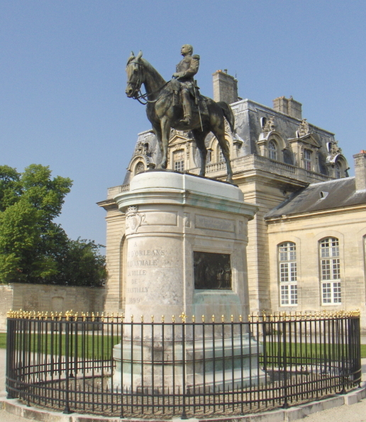 Equestrian Statue of the Duc d'Aumale in Chantilly